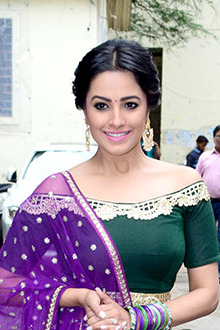 Anita Hassanandani Reddy snapped promoting the film Bareilly Ki Barfi in Aug 2017.